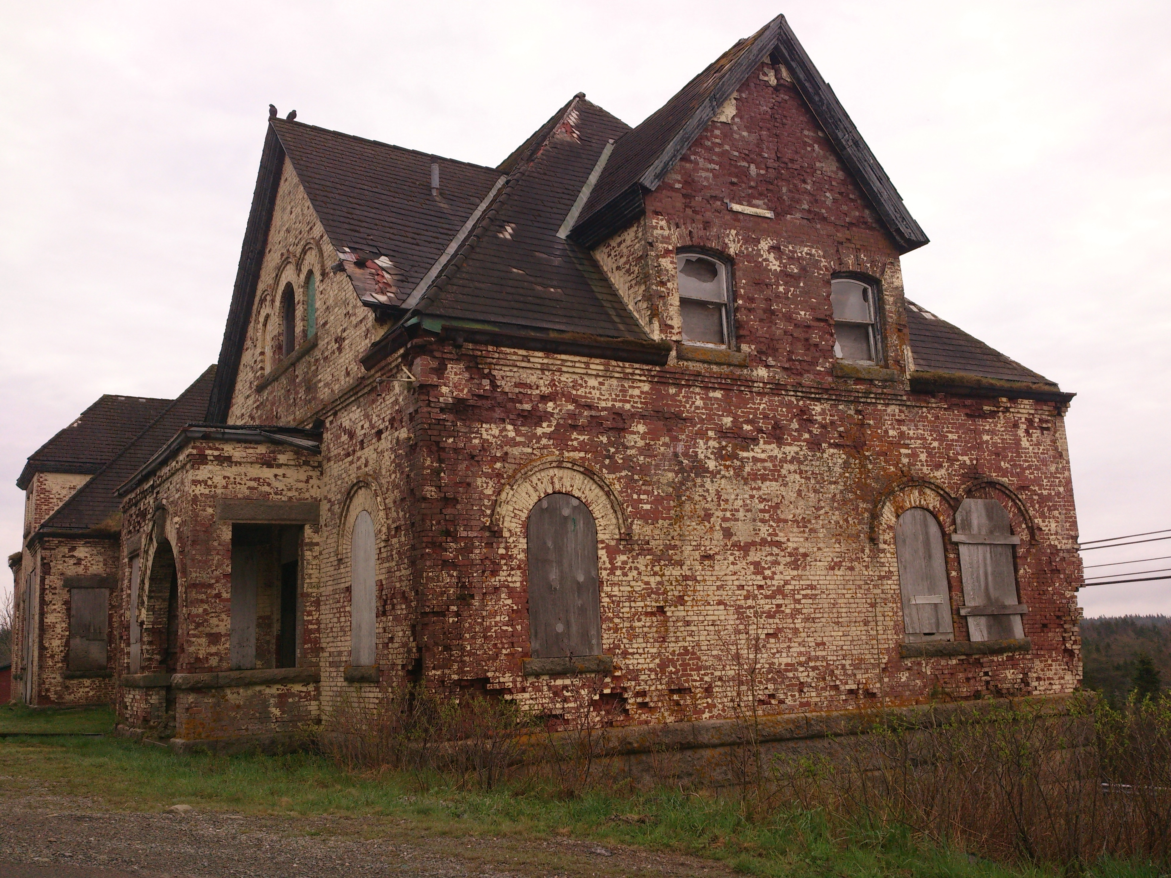 the sad part is it is becoming condemned, because of the lack of funds in the small town of the 810 that reside there, too bad as it is a big piece of world history.